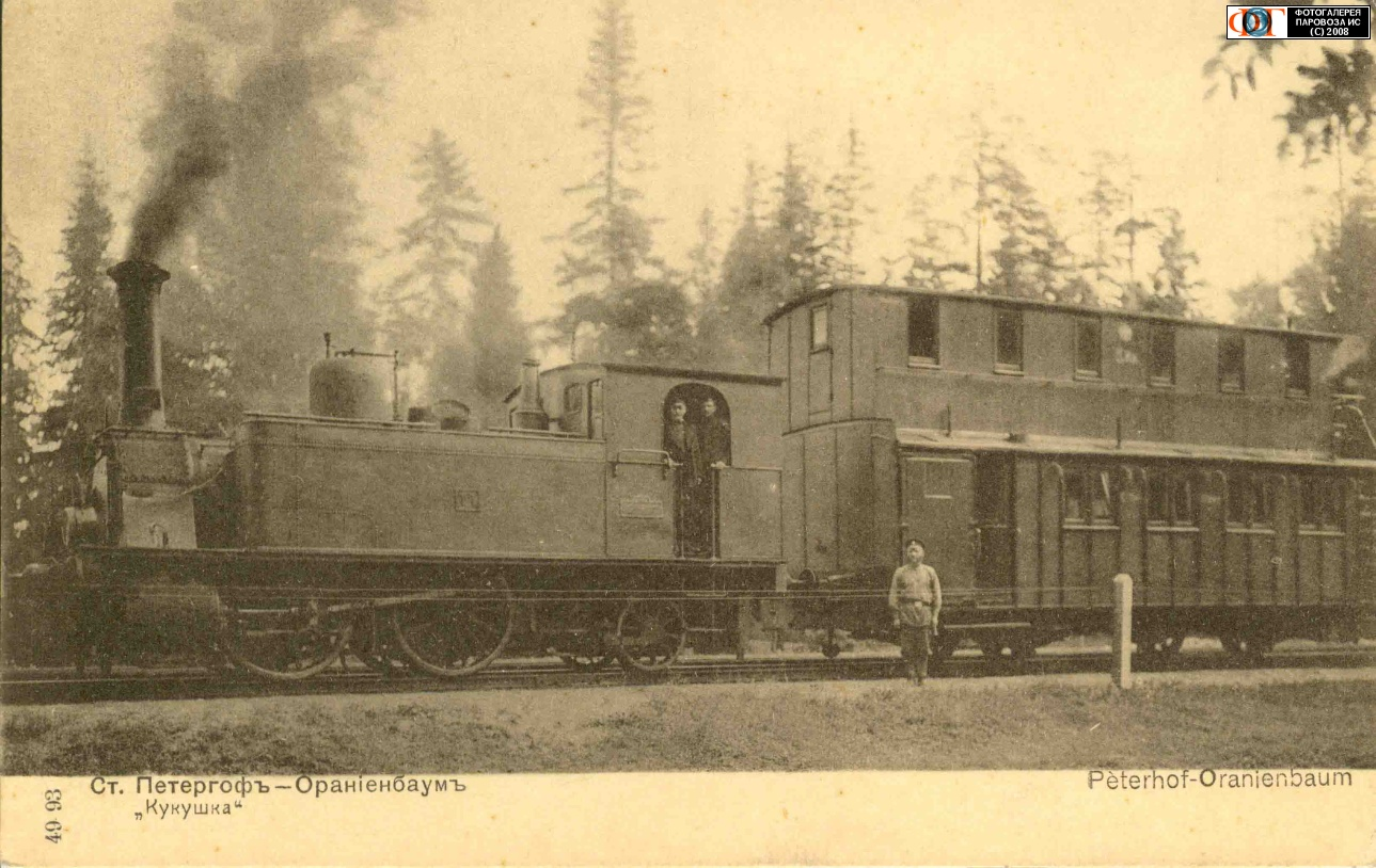 Local train ("Kukushka") on Peterhof-Oranienbaum Station of Saint Petersburg – Peterhof railway, Russia. Engine built in 1875 by Schwarzkopf